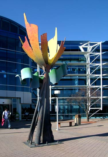 Aurora statue outside the Roanoke Regional Airport, Roanoke, Virginia